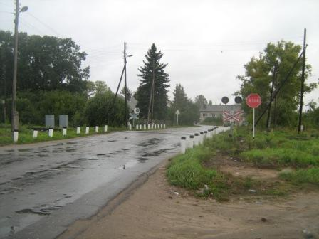 Sonkovo level crossing